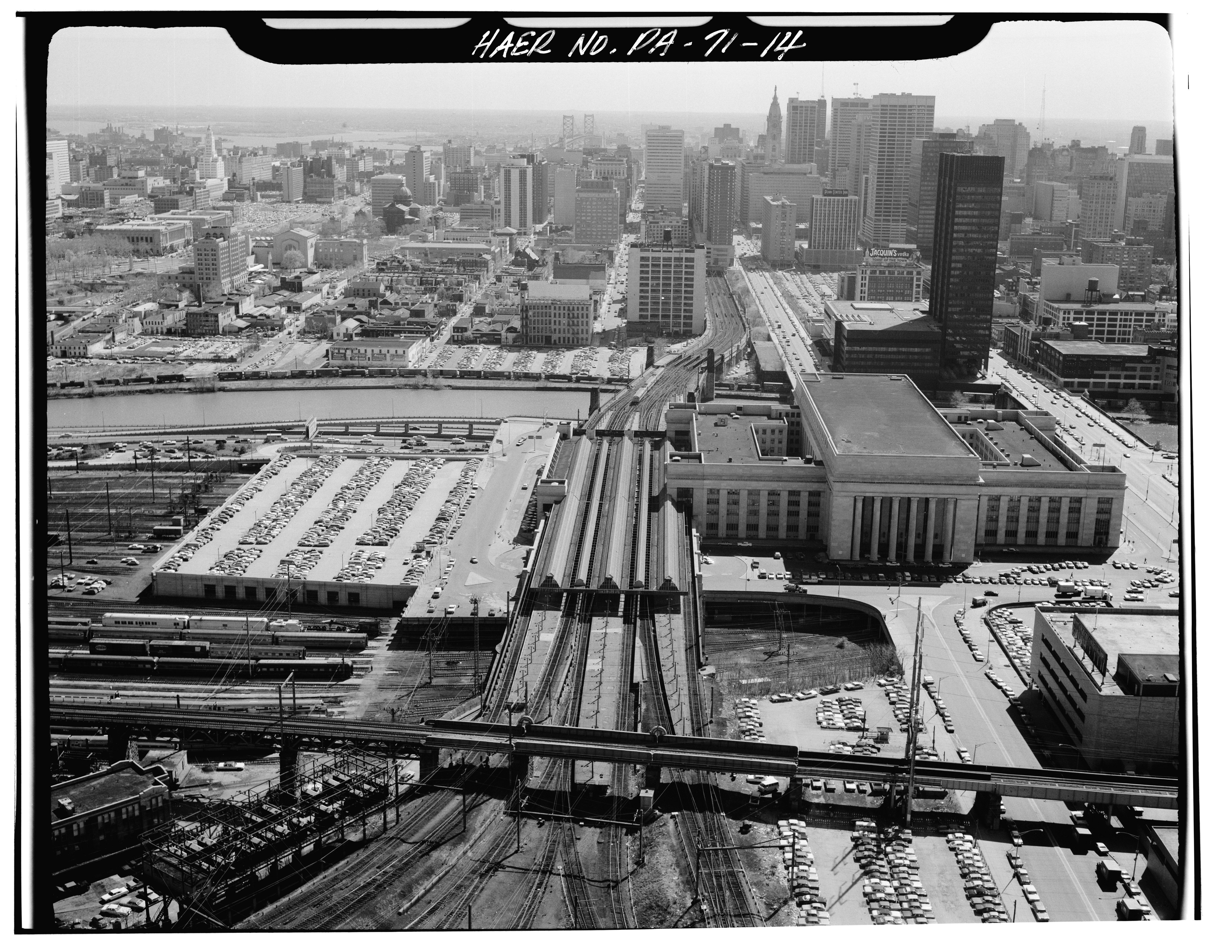 Tracks leading to 30th Street station, Philadelphia, Pennsylvania as seen from the west.